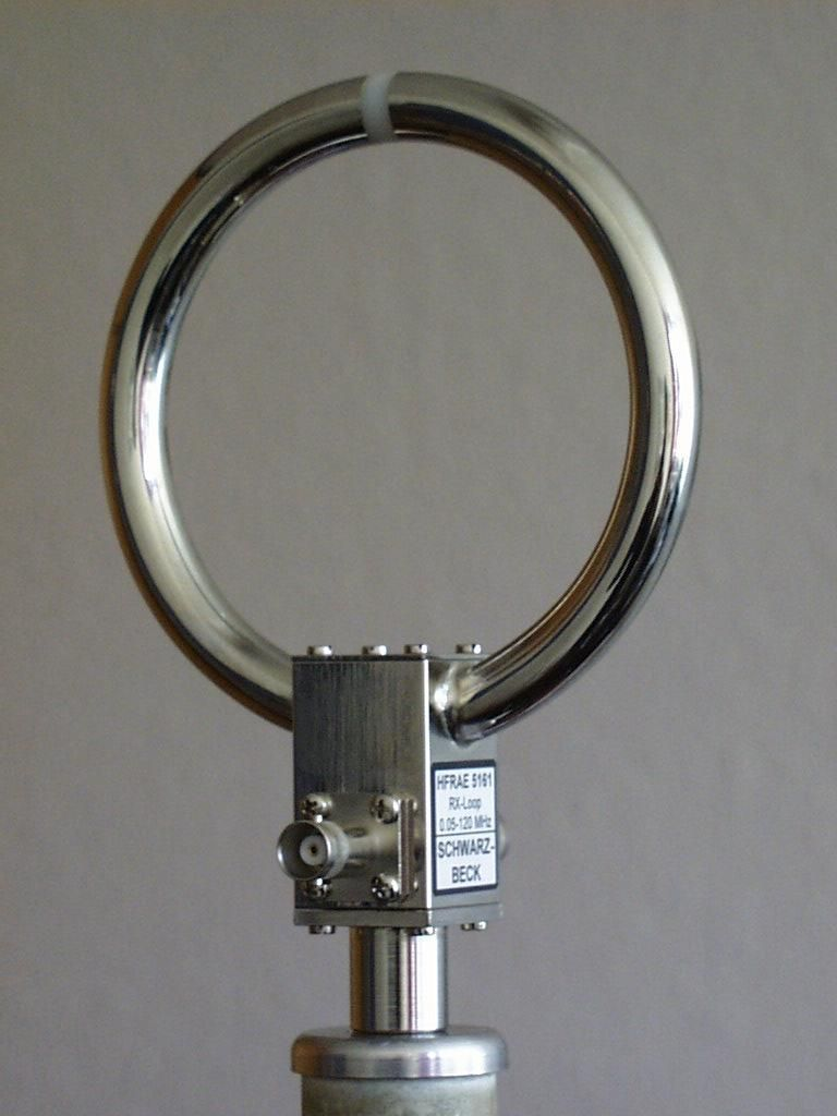 HF RX Loop, diam. 100 mm, 70 k-120 MHz, 1 turn, Transformer